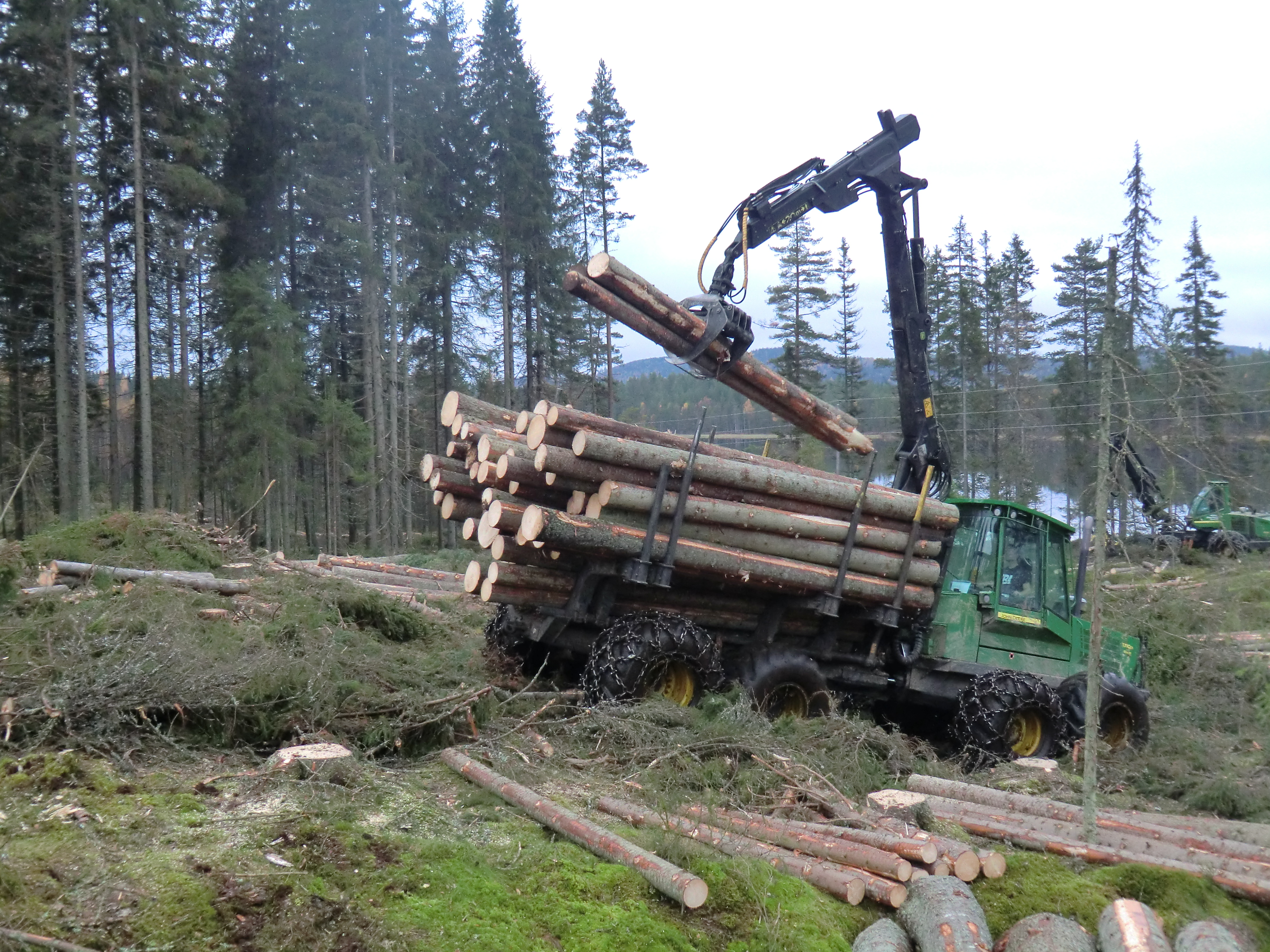 John Deere 1710 forwarder in Finnsjön, Värmland, Sweden.